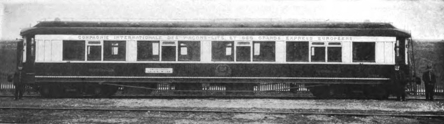 CIWL sleeping car with Simplon Express route boards showing the destinantions Calais and Milan